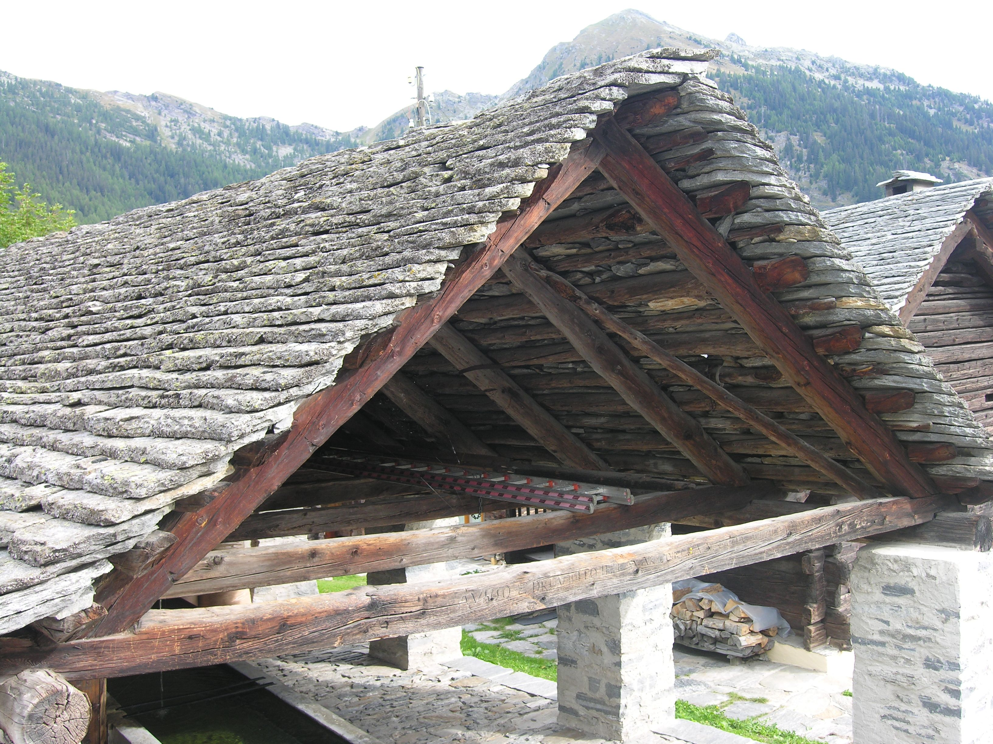 Construction of the dry stone roof